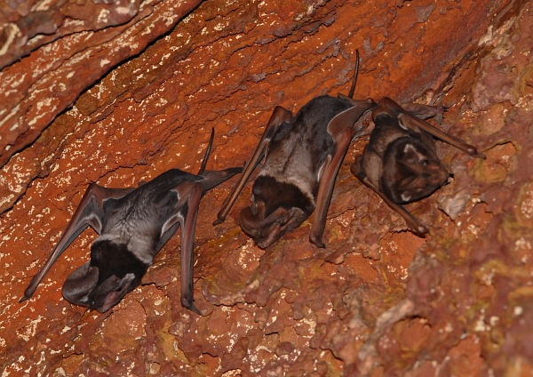 Wroughton's Free-tailed Bat photographed from North Karnataka